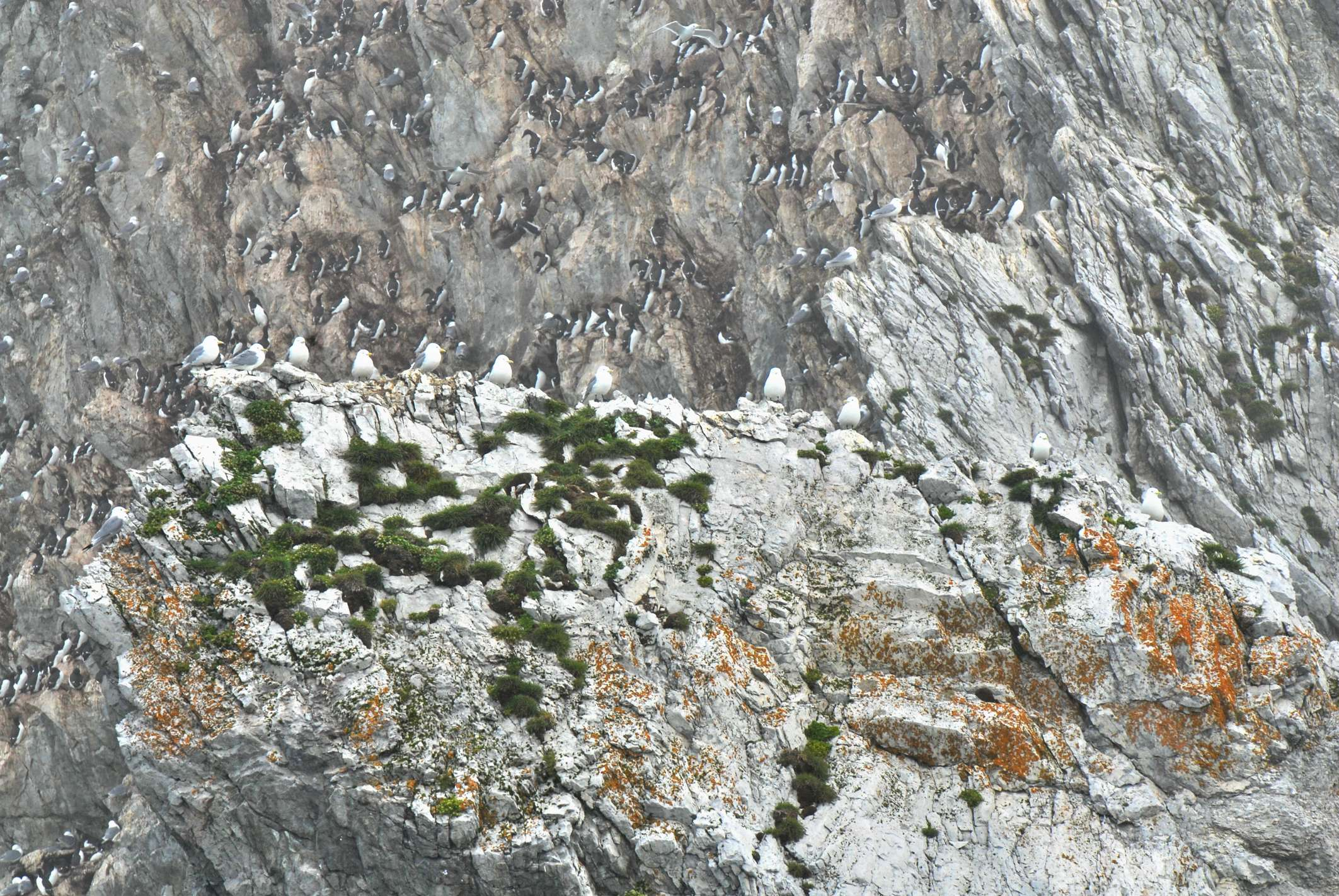 Cape Waring (southeast tip of Wrangel Island, Chukchi Sea, Russia; 71°14‘N, 177°27’W): Bird rock with Black-legged Kittiwakes Rissa tridactyla and Brünnich's Guillemots Uria lomvia